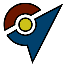 A transparent icon of a Pokemon Go gym.